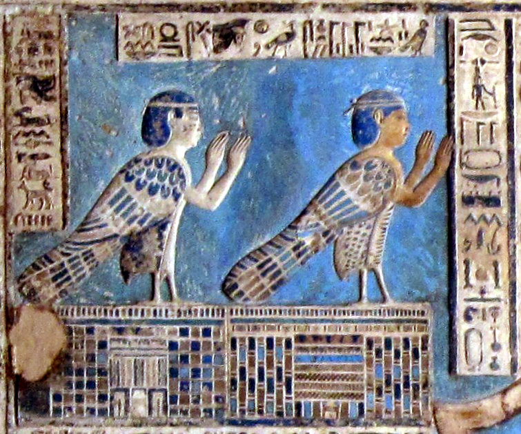 Relief in Dendera Temple, Egypt